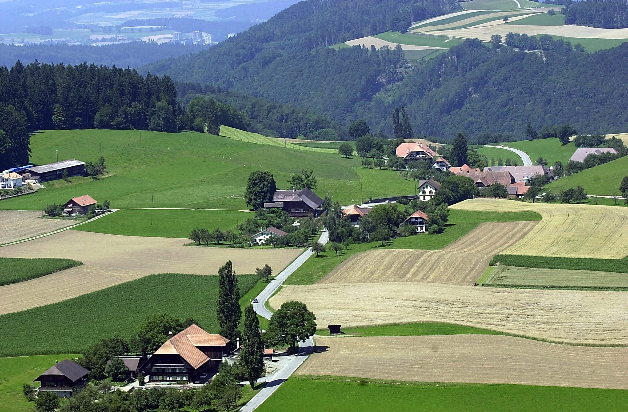 Englisberg, aerial view - western direction - Gurten Mountain in the background